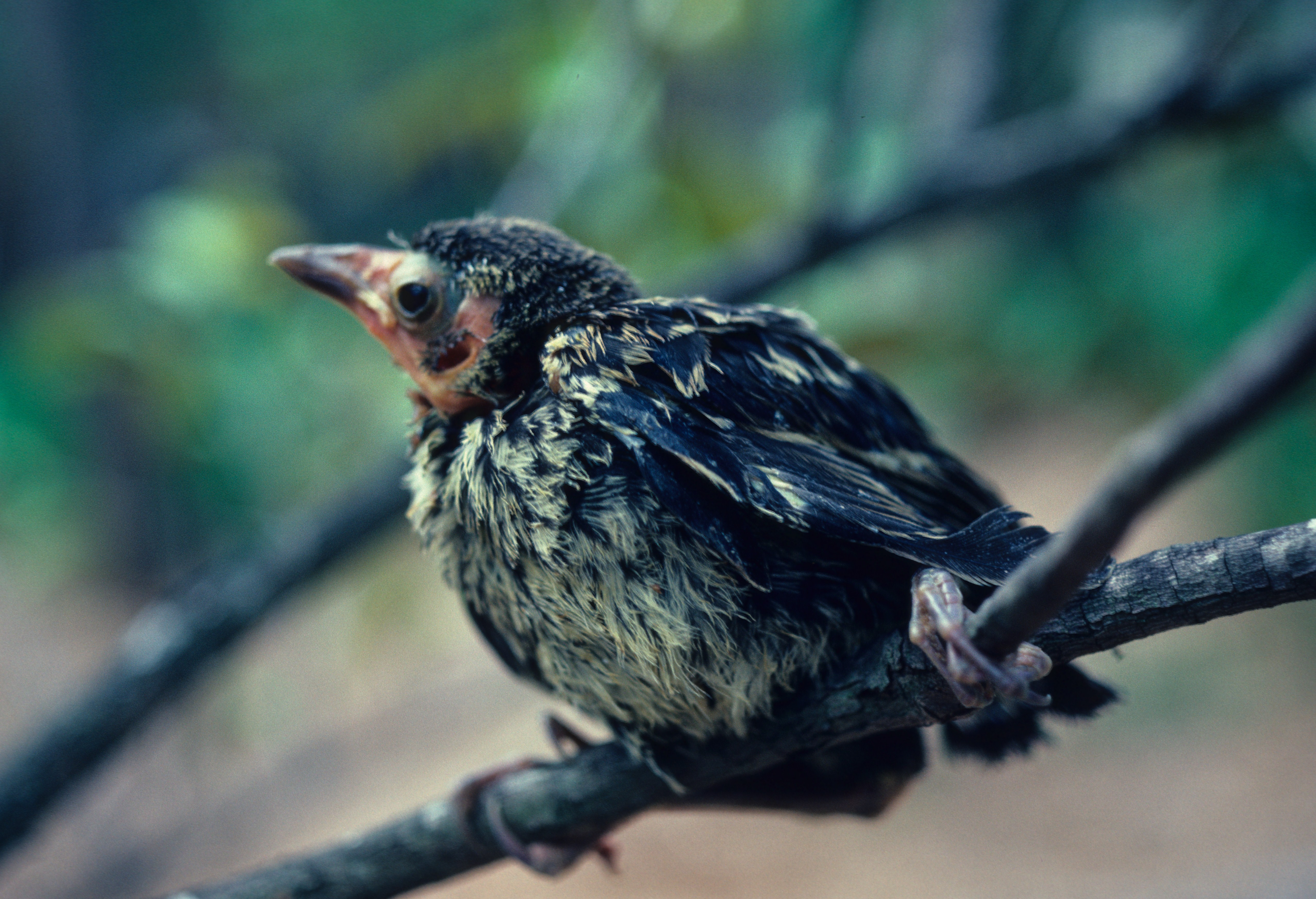 Baby grackle (Quiscalus quiscula)